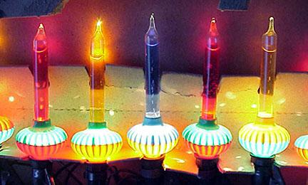 Set of NOMA Bubbling Christmas lights circa 1950